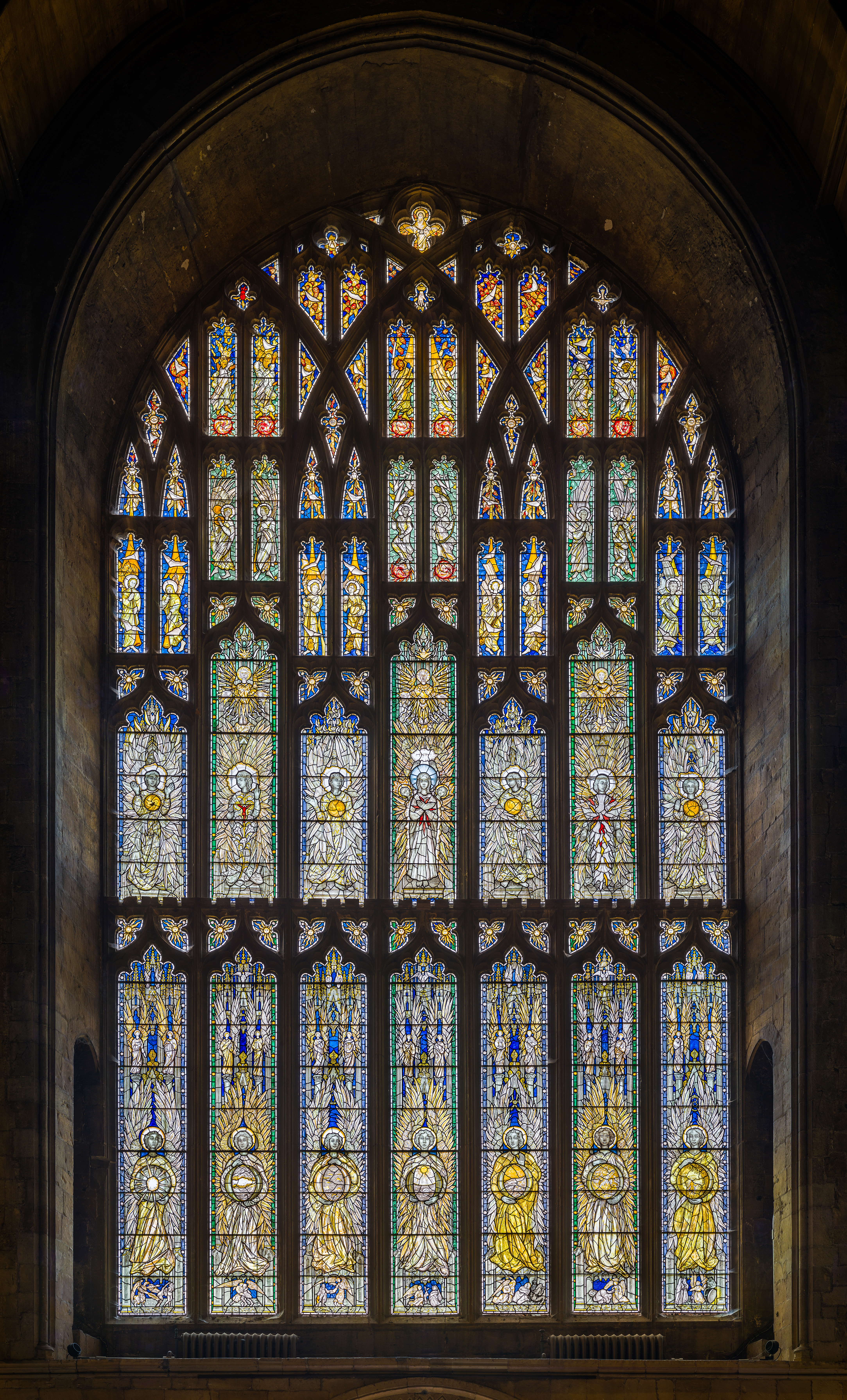 West window of Southwell Minster, Nottinghamshire, England